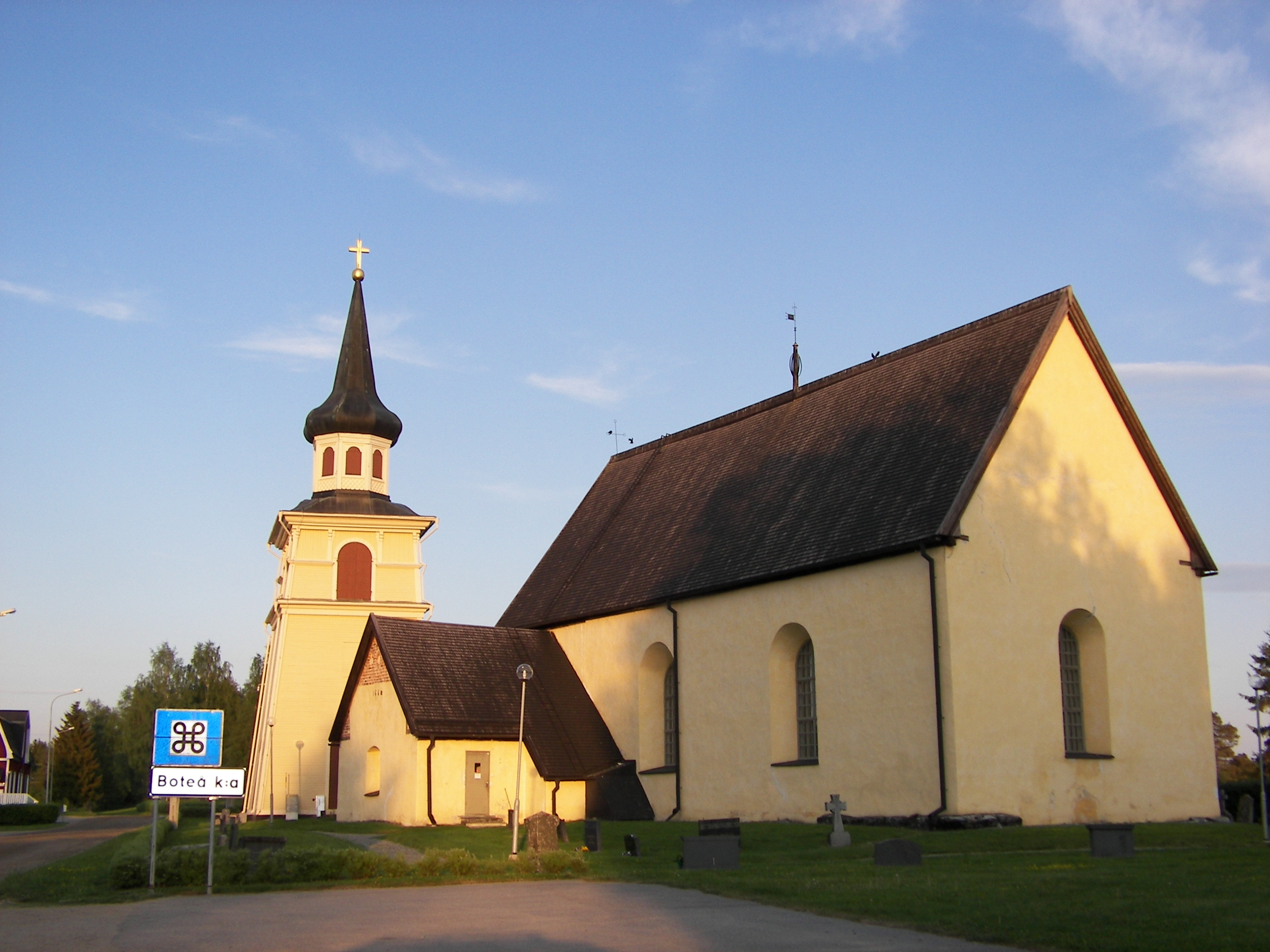 Boteå church, Sweden